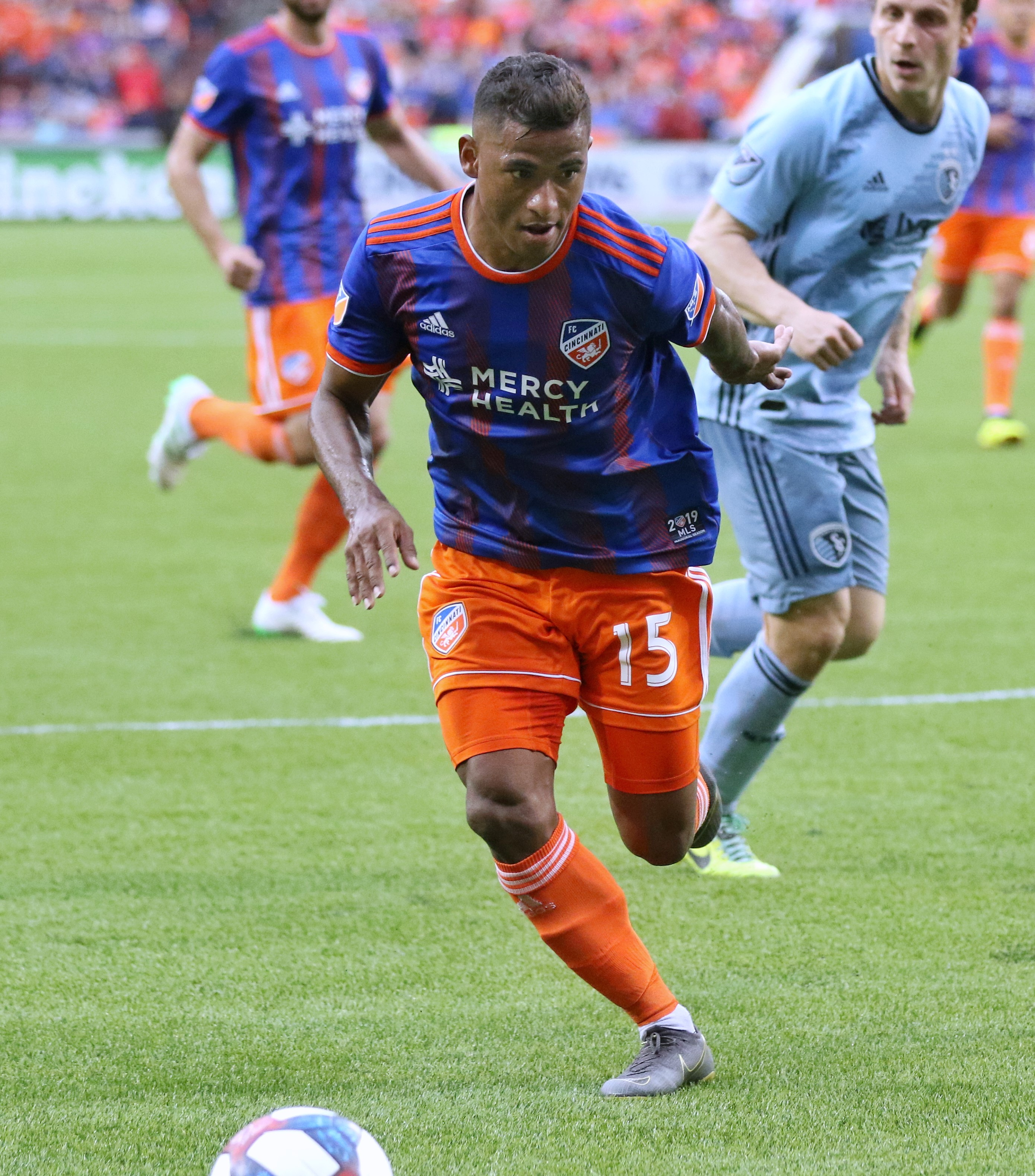 Allan Cruz playing for FC Cincinnati on April 7, 2019.